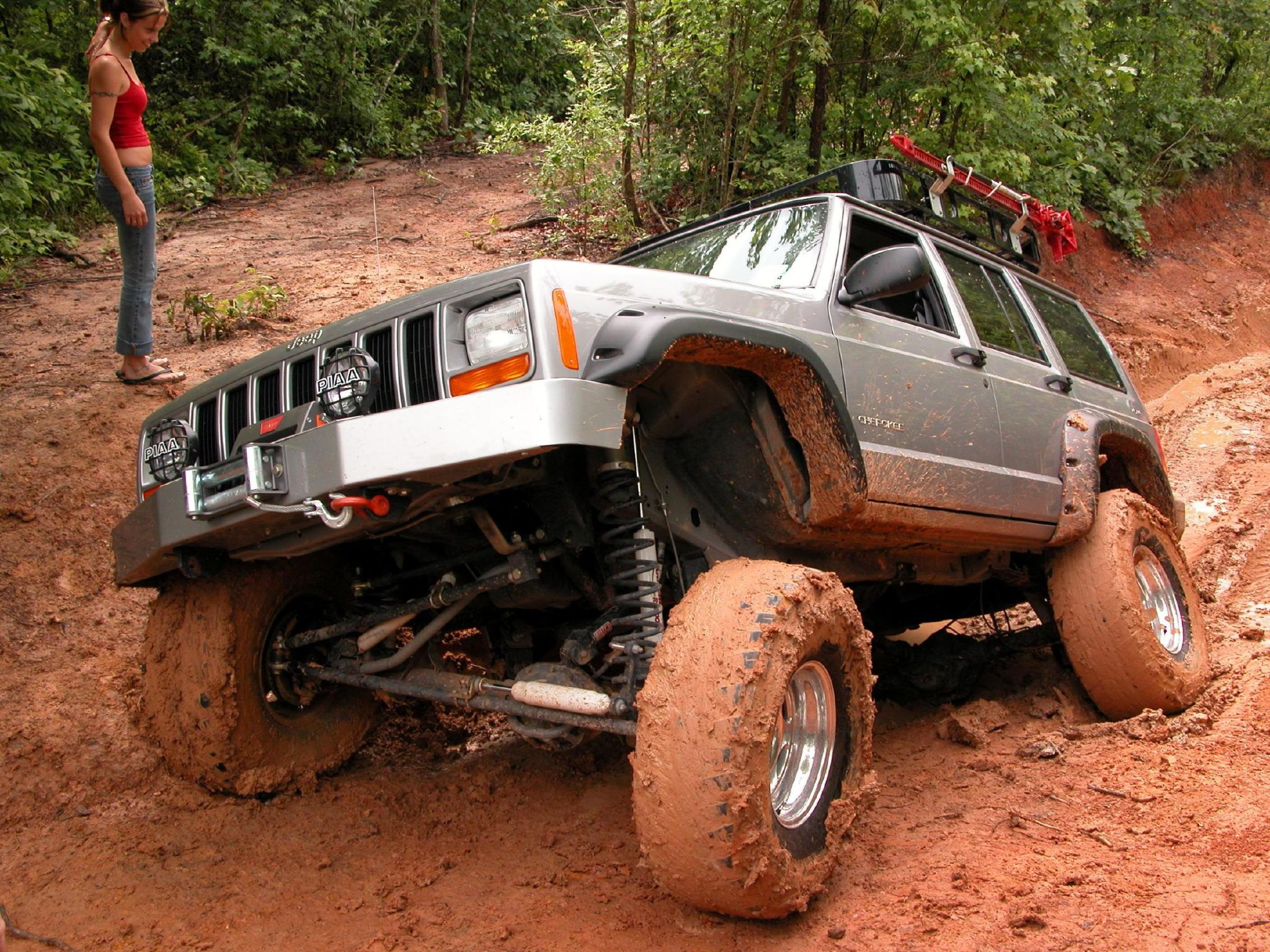 Offroading in Jeep Cherokee somewhere in TexasDallas